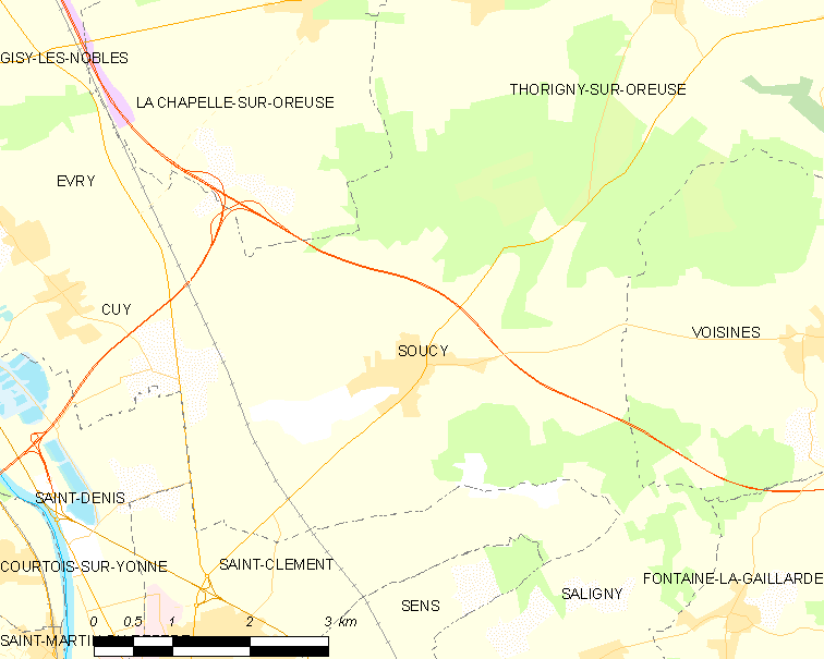 Map of French municipality Soucy